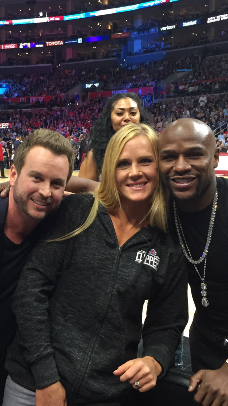 From left to right Rd Whittington, Holly Holm and Floyd Mayweather, Jr.